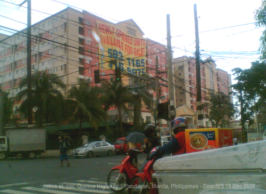 Photo of modern residential/housing in Pandacan, Manila the Philippines for free use for Wikipedia, taken by Dean M. Bernardo on 16 Dec 2006 (Self taken and released for use to Wikipedia)